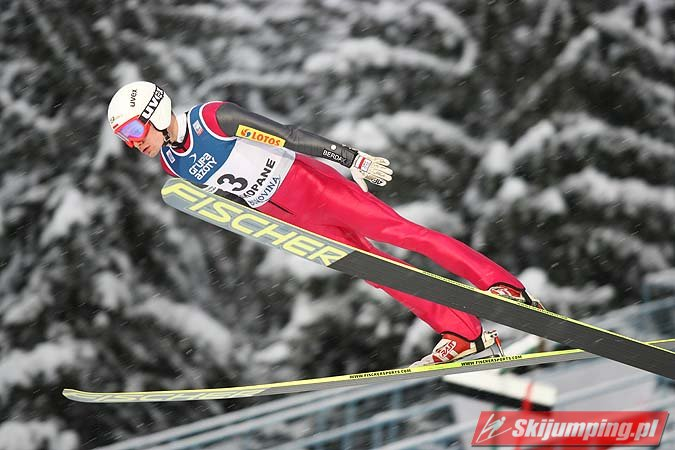 Jan Ziobro during FIS Ski Jumping World Cup in Zakopane, 2013